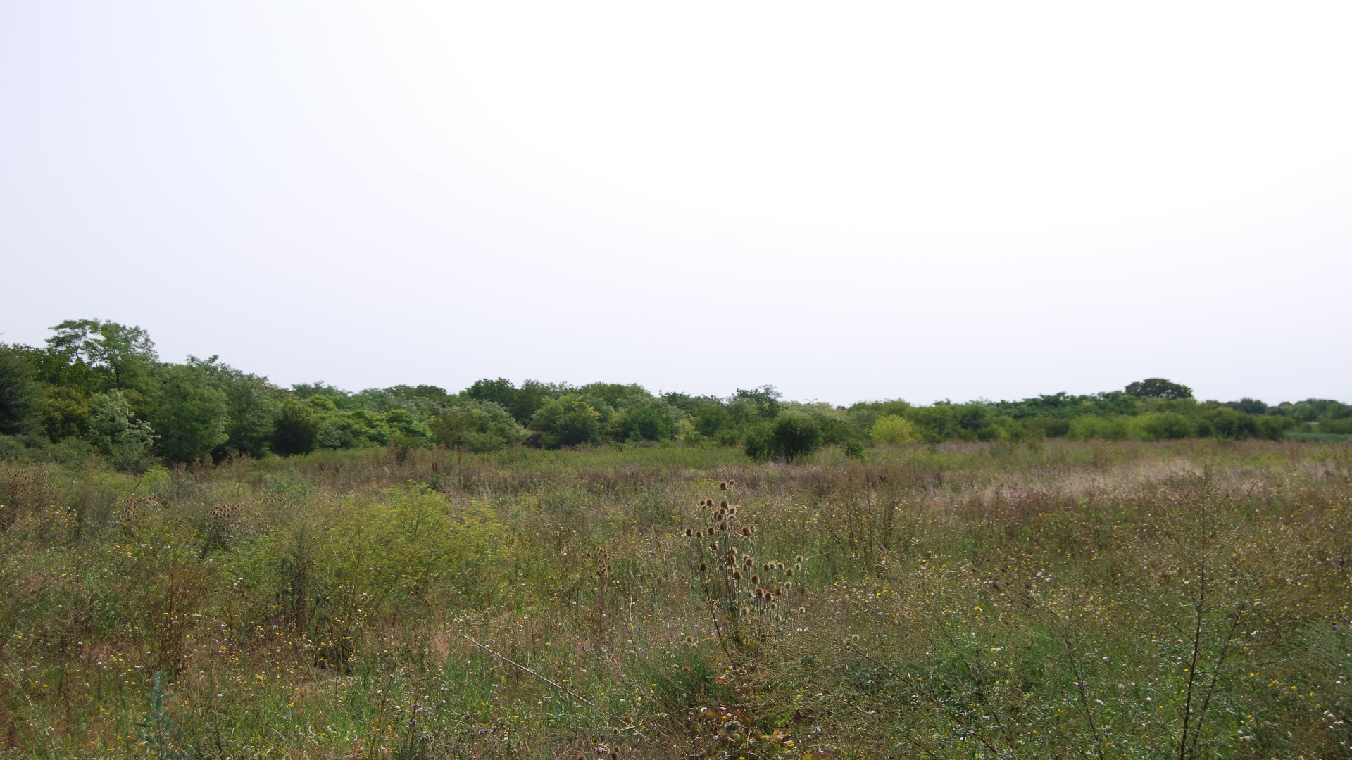 Archaeological site Starčevo, near Pančevo